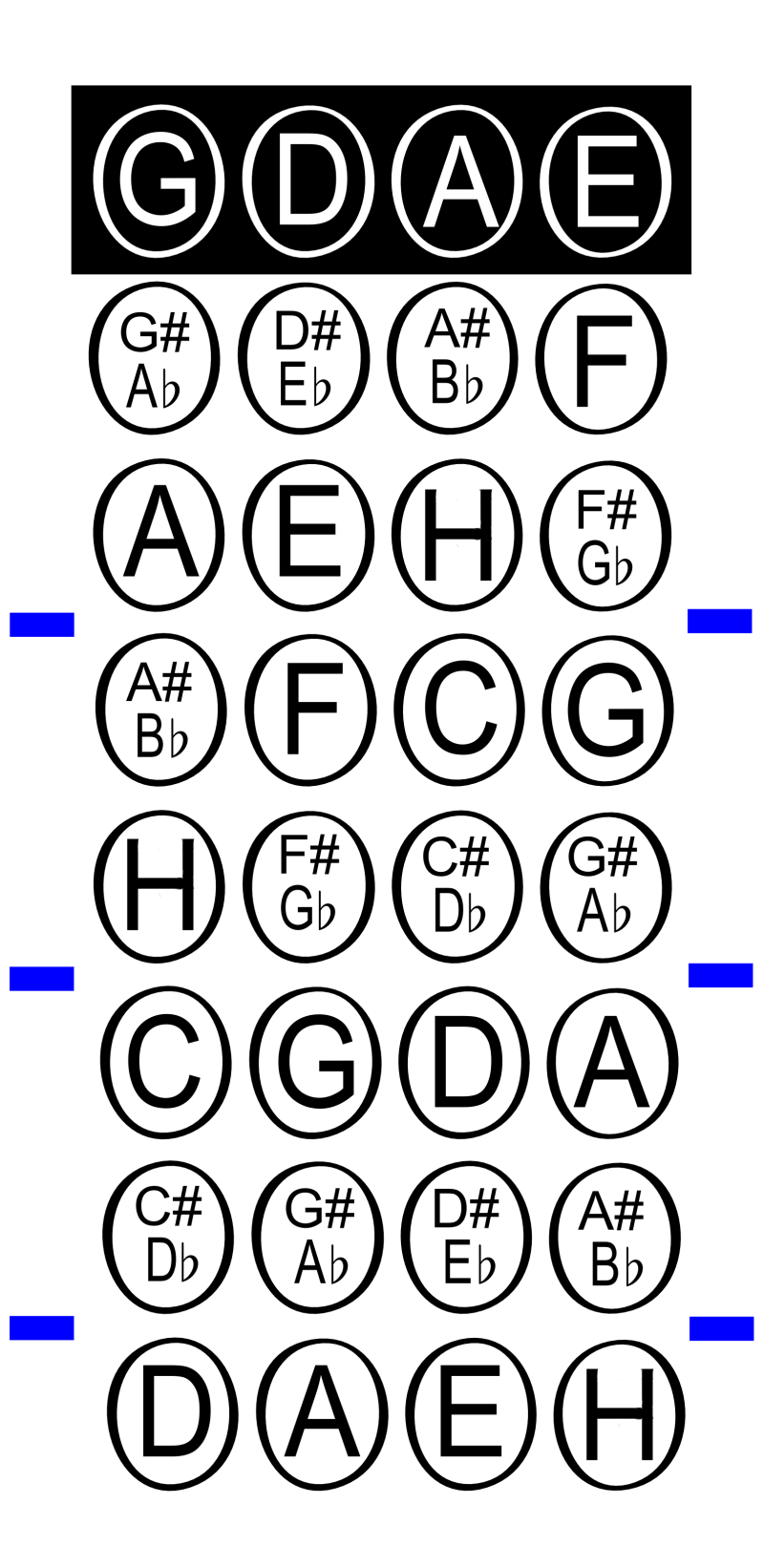 Violin first position fingering chart, using German music notation.